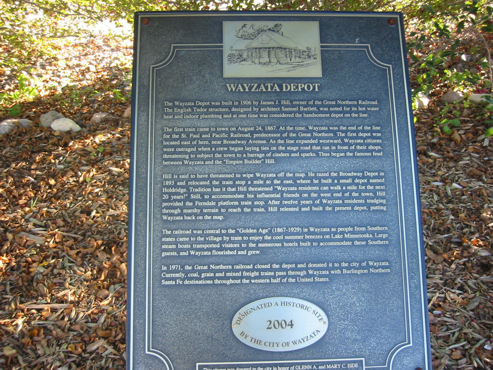 A plaque posted at the Great Northern Depot (Wayzata, Minnesota) describing the history of the depot.